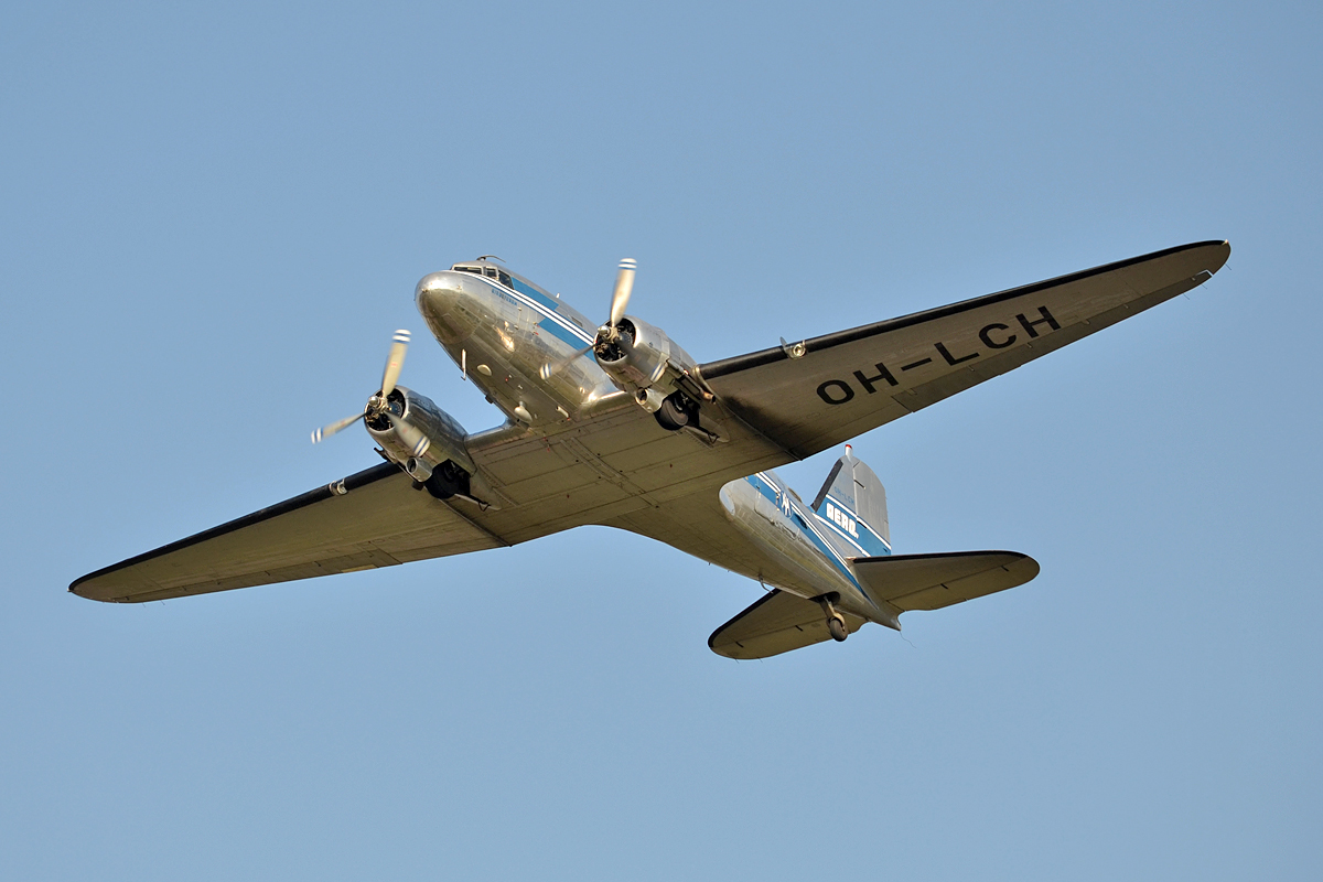 Aero - Finnish Airlines, OH-LCH, Douglas DC-3